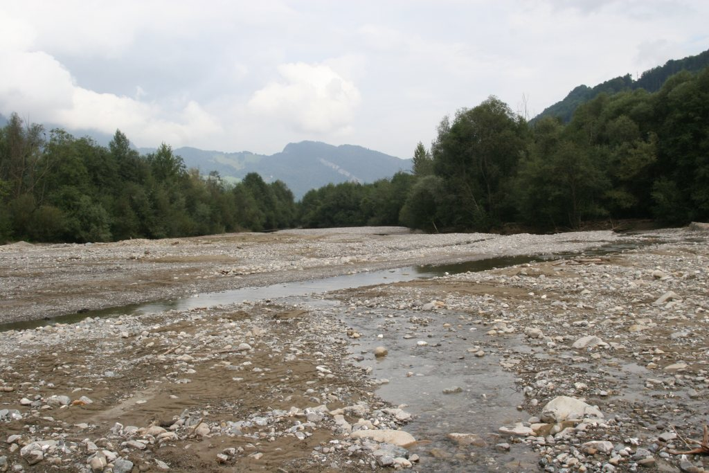 River "Grosse Schliere", near Alpnach, Kanton Obwalden, Switzerland